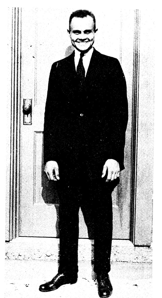 photo (c. 1920) of Peter Deyneka (1897-1987), Russian-American evangelist and mission board founder